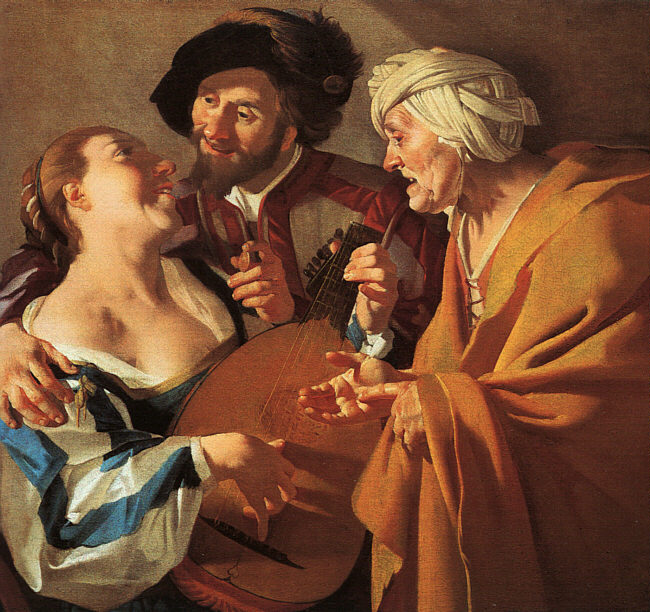 The Procuress